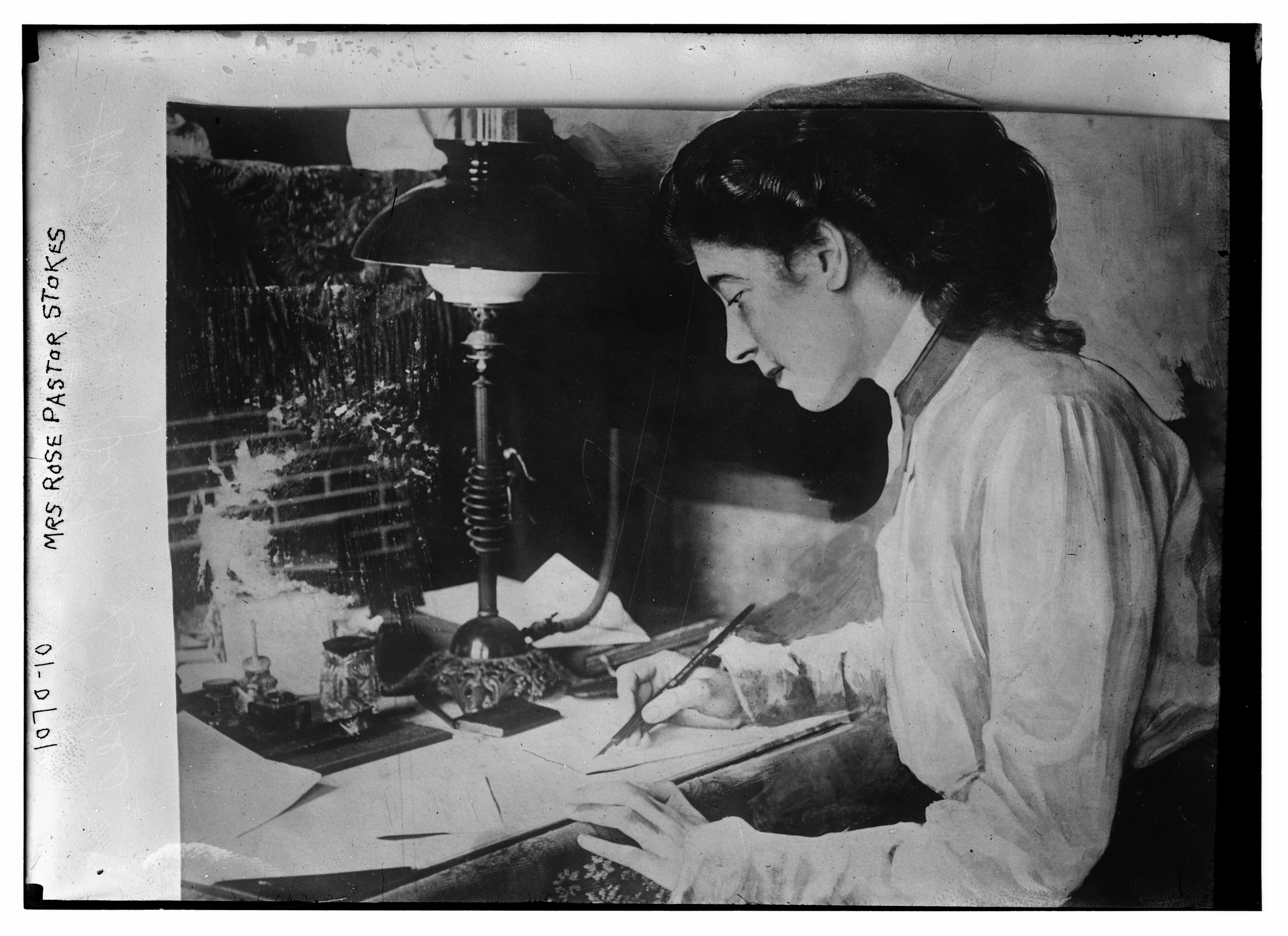 Title: Mrs. Rose Pastor Stokes at desk writing Abstract/medium: 1 negative : glass ; 5 x 7 in. or smaller.